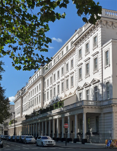 73–82 Eaton Square